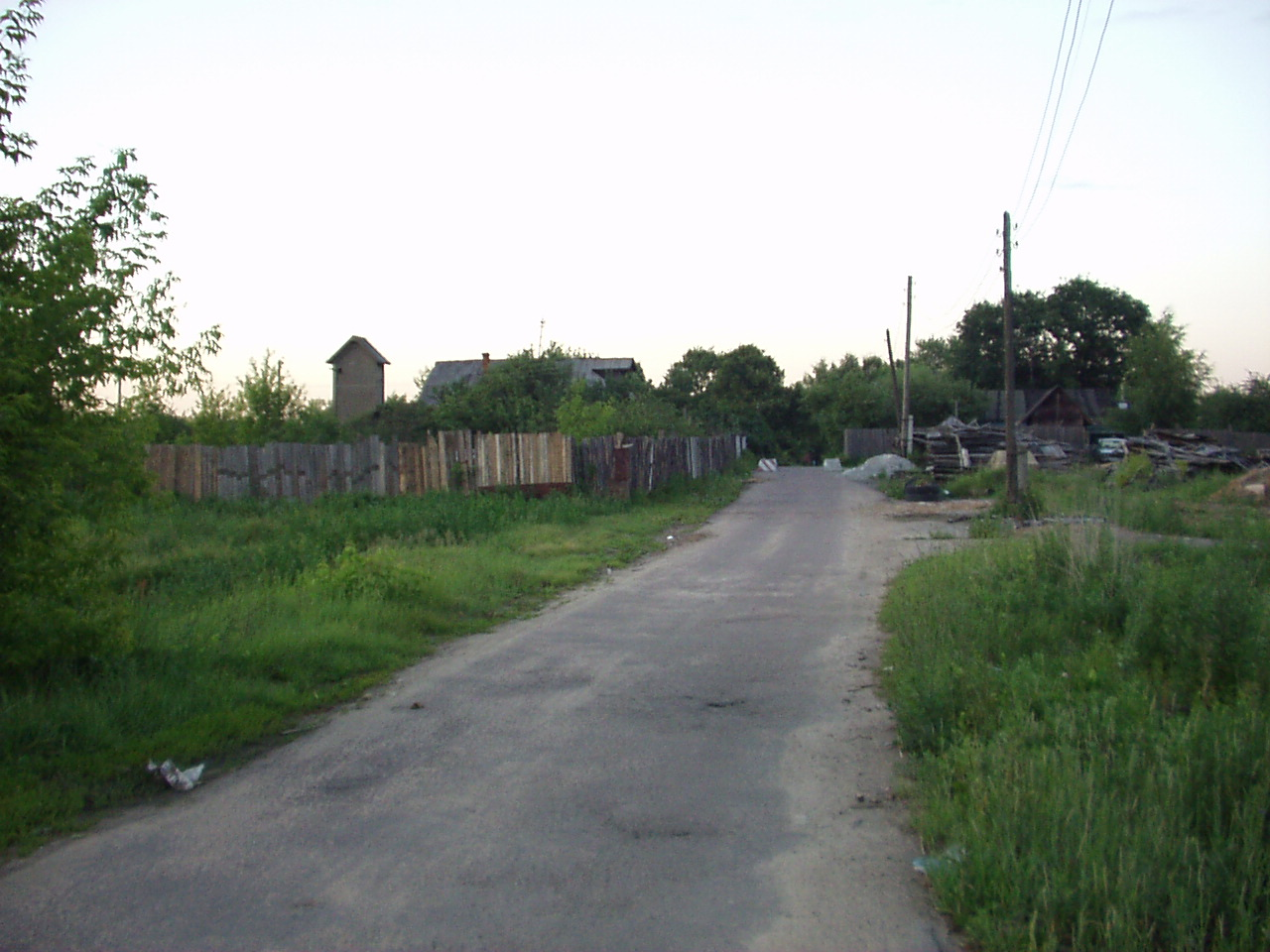 Terekhovo village in Moscow, Russia in 2002